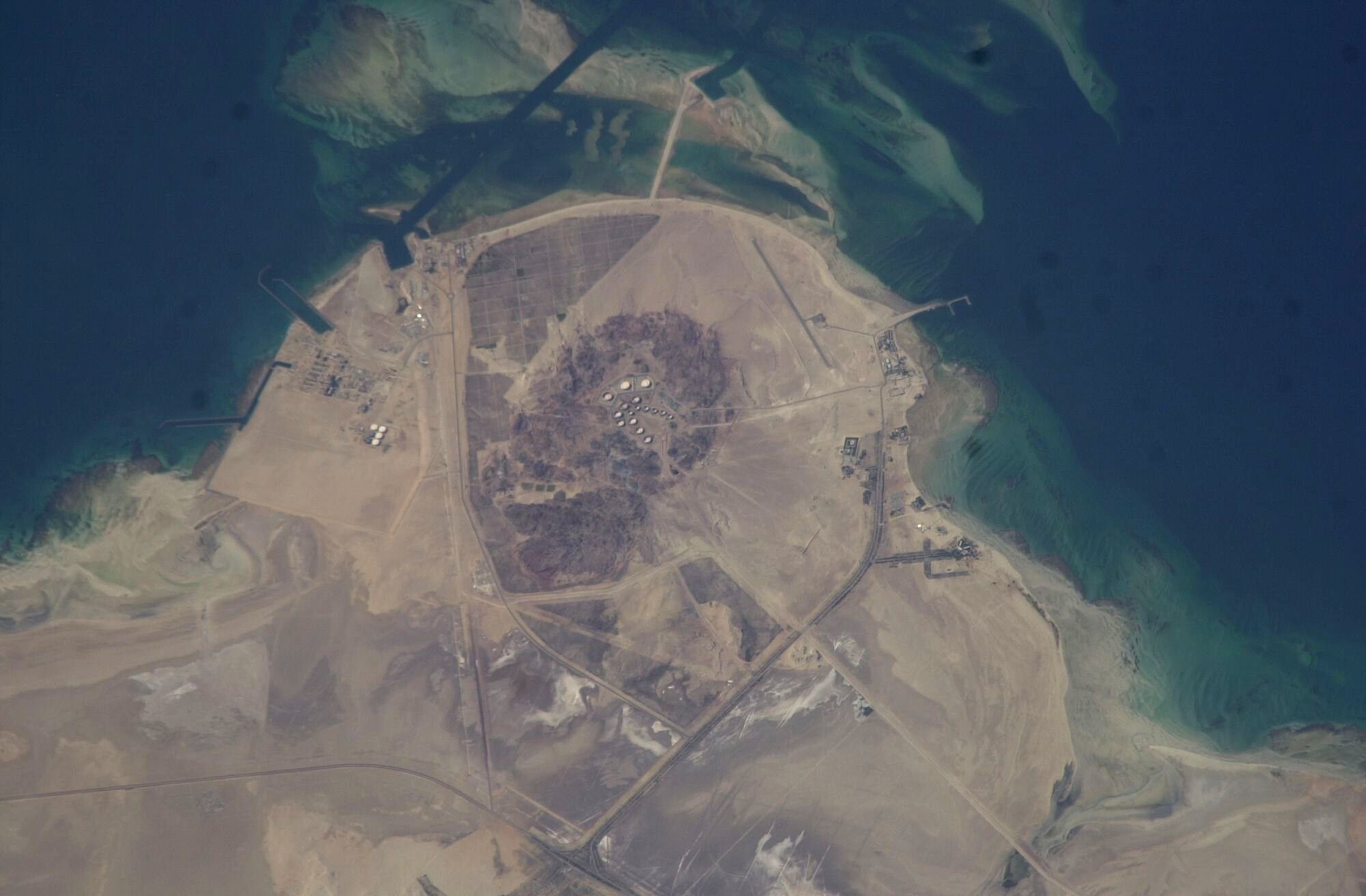 Picture taken by International Space Station in April 2003, Source: NASA. "Image courtesy of the Image Analysis Laboratory, NASA Johnson Space Center." Filmroll: ISS006-E-52472 Detailed Copyright-Information